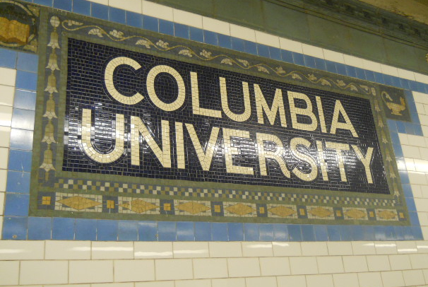 Mosaic for the 116th Street Columbia University Station (IRT West Side Line)